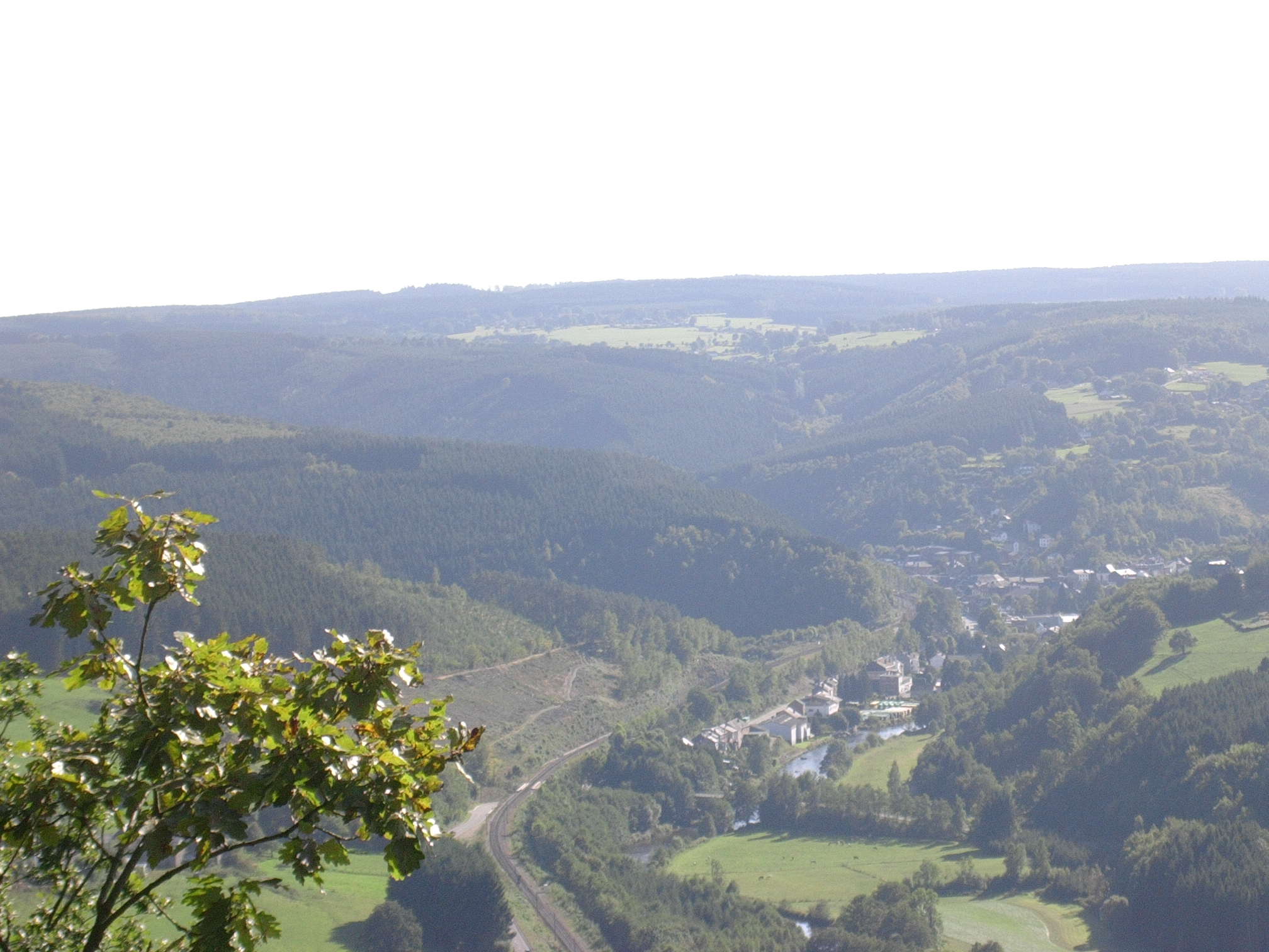 Panorama from the Coo waterfall